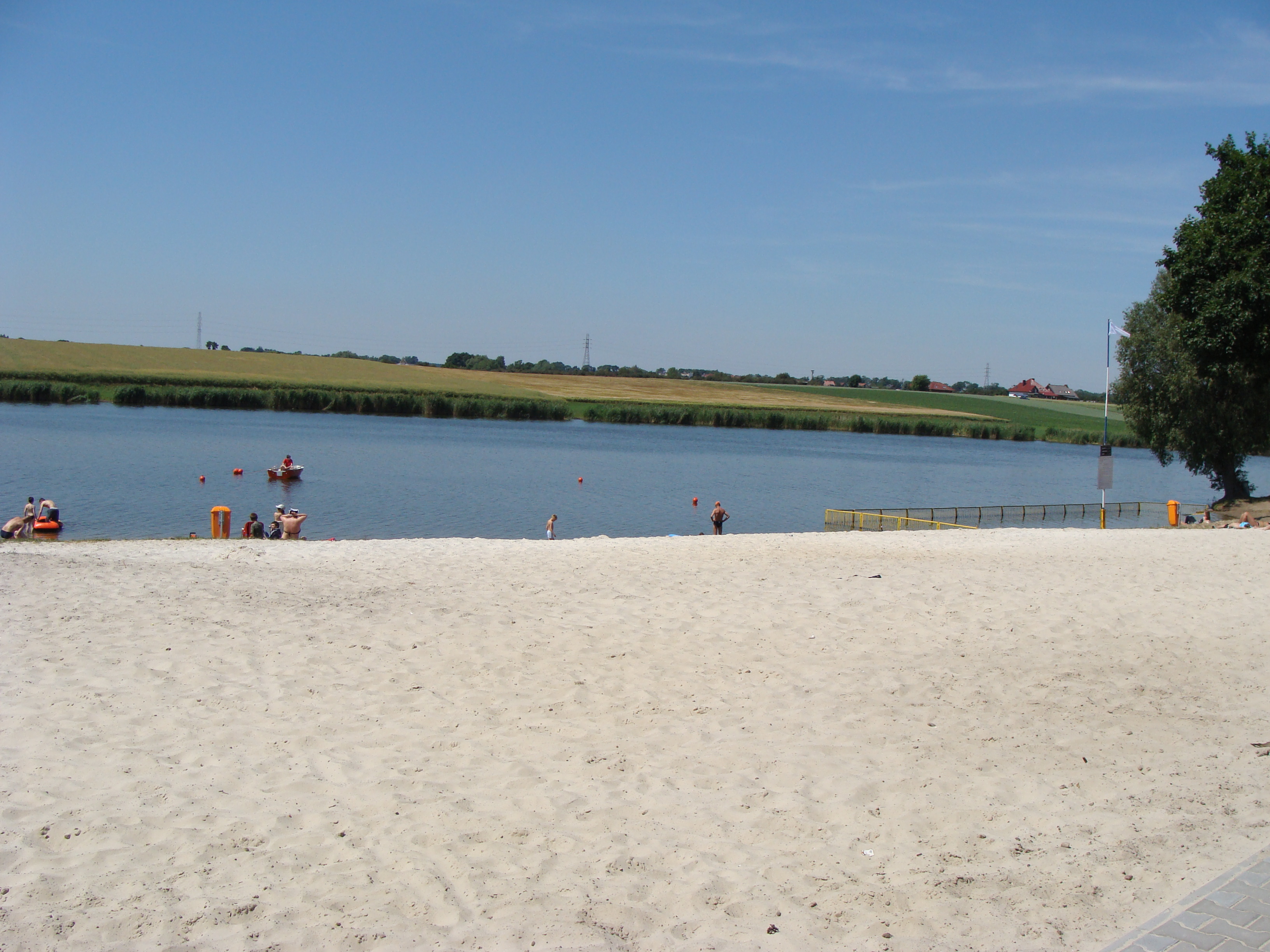 Śrem, Grzymisławskie Lake, beach.